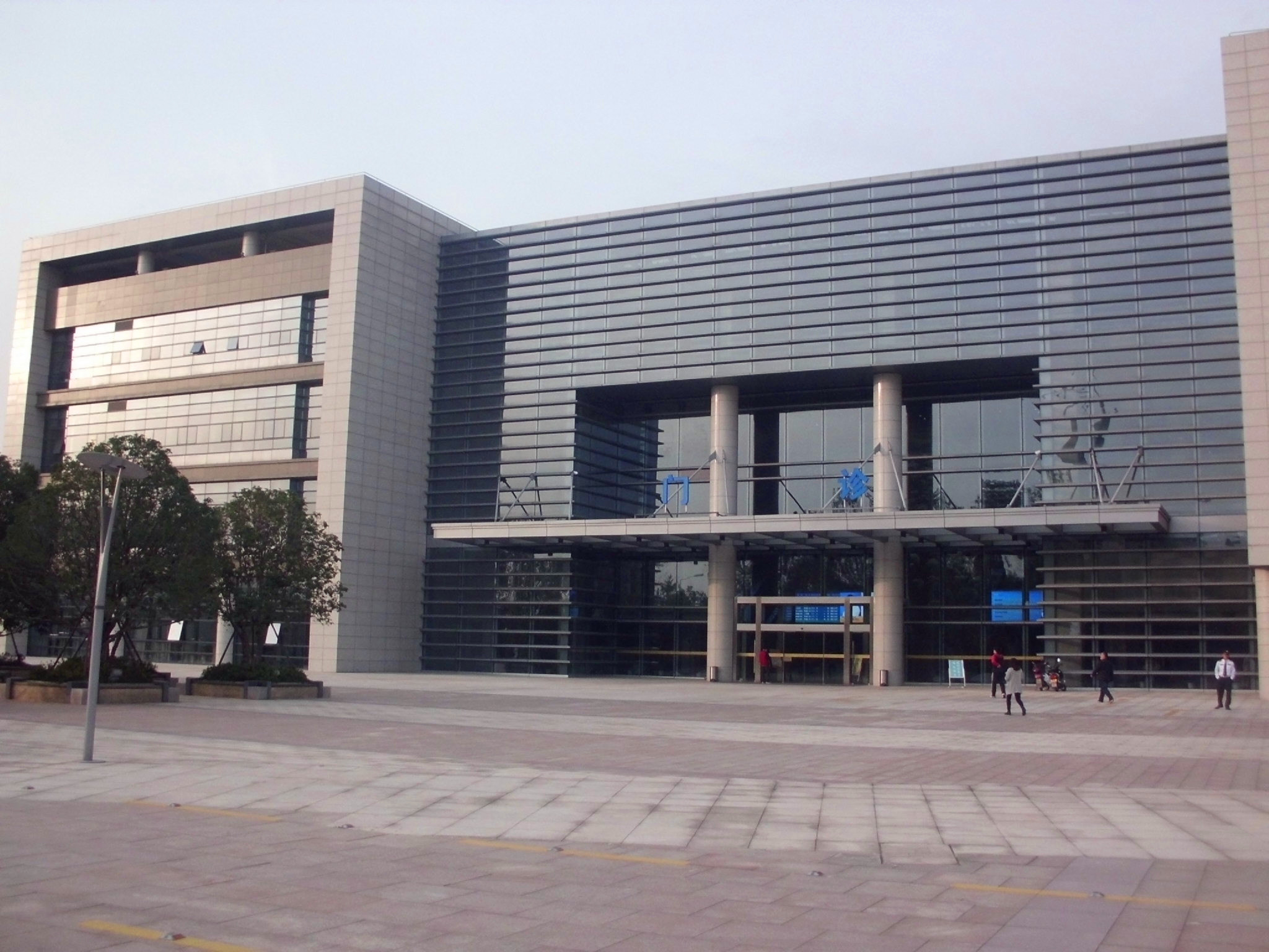 Xiasha Hospital